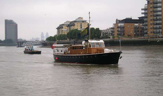 River Thames PLA Launch, Havengore, with flags at half mast the day after 7th July London bombings, taken during the Barge Driving Race for Watermen and Lightermen just out of their apprenticeship.